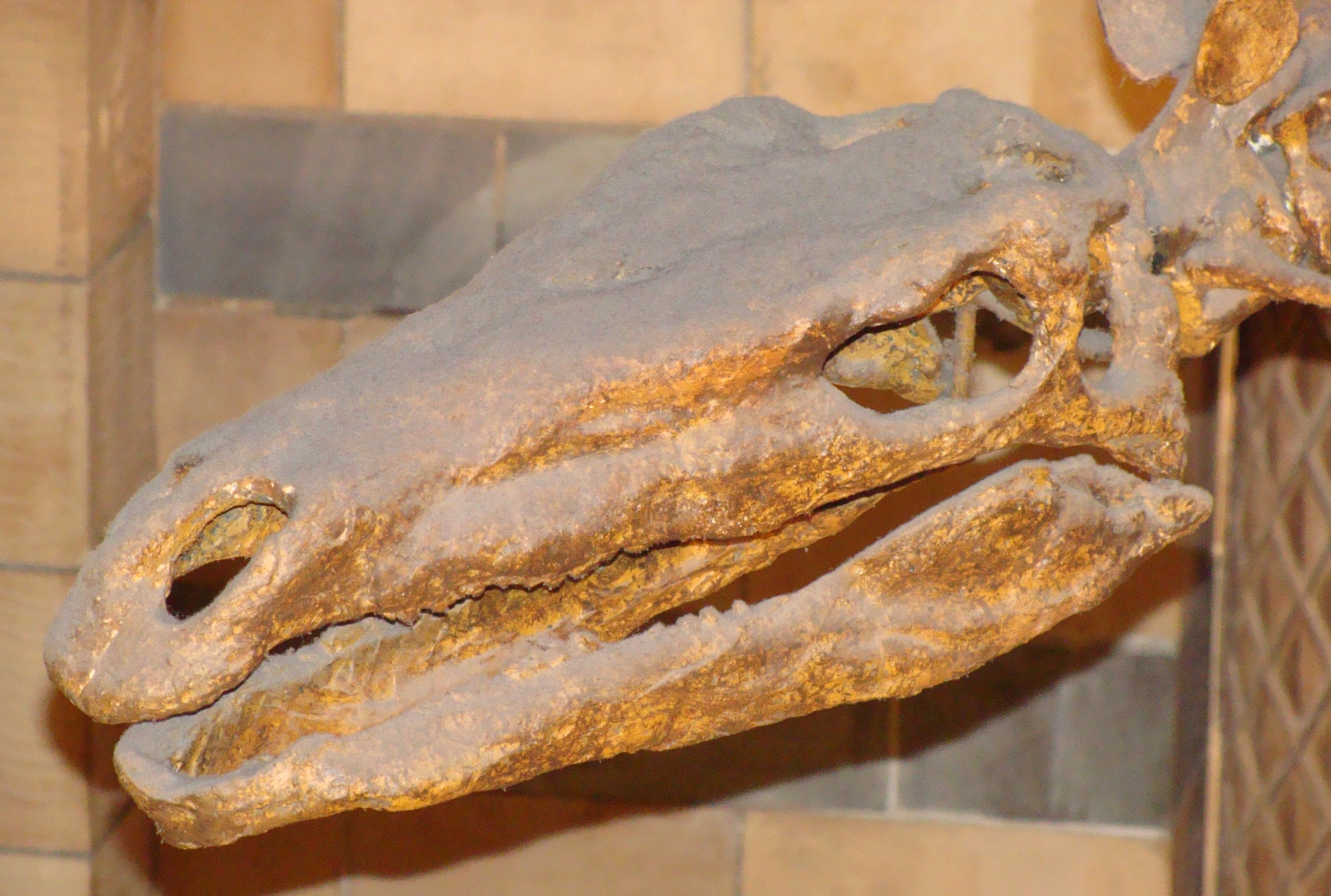 Tuojiangosaurus multispinus in the Natural History Museum of London